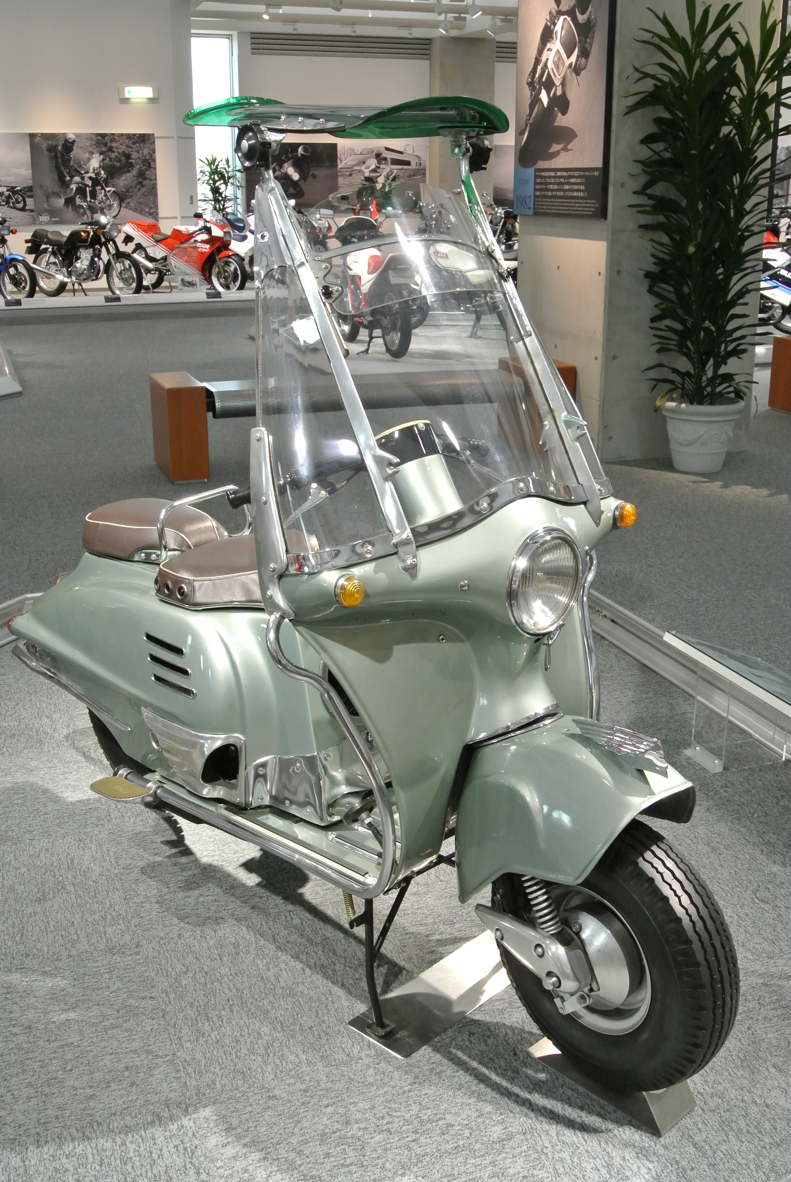 Honda JYNO in the Honda Collection Hall.